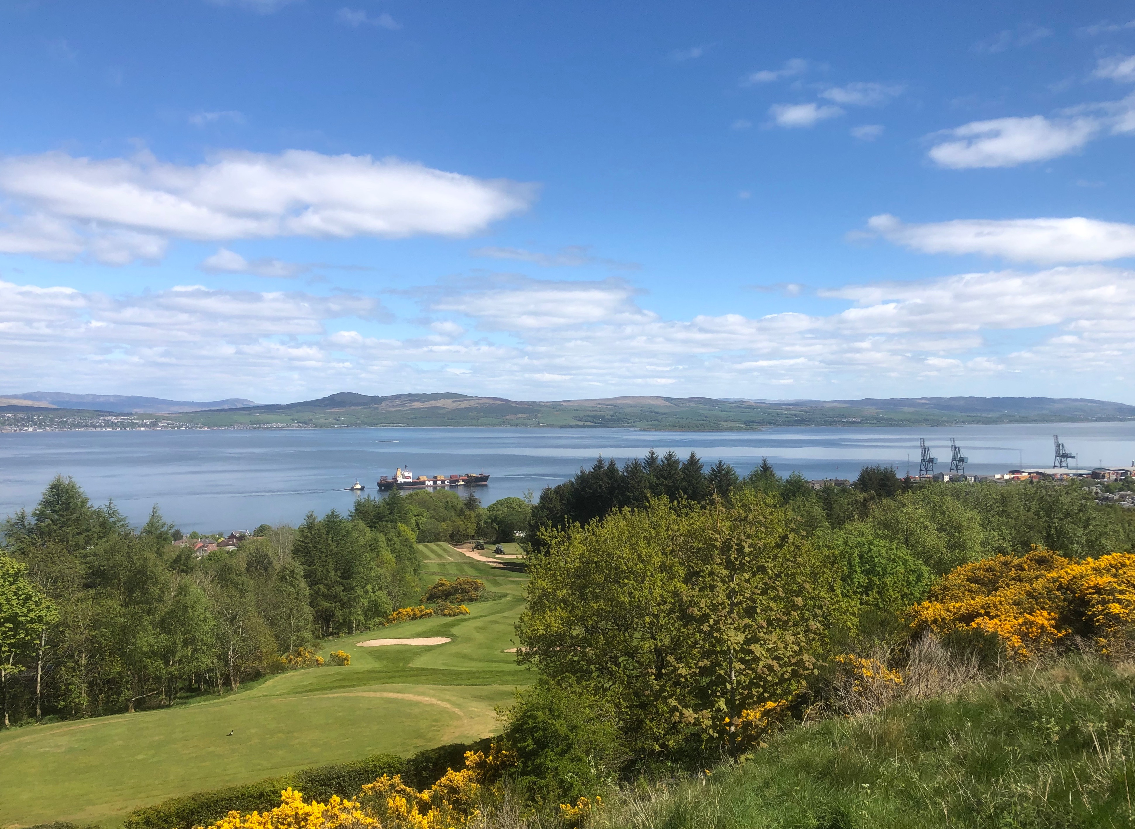 View from Craigs Top scenic viewpoint at the high point of Lyle Hill in Greenock, looking northeast over Greenock golf course and the River Clyde, as a container ship is taken upriver to the waiting cranes of Greenock Ocean Terminal container port on the right.